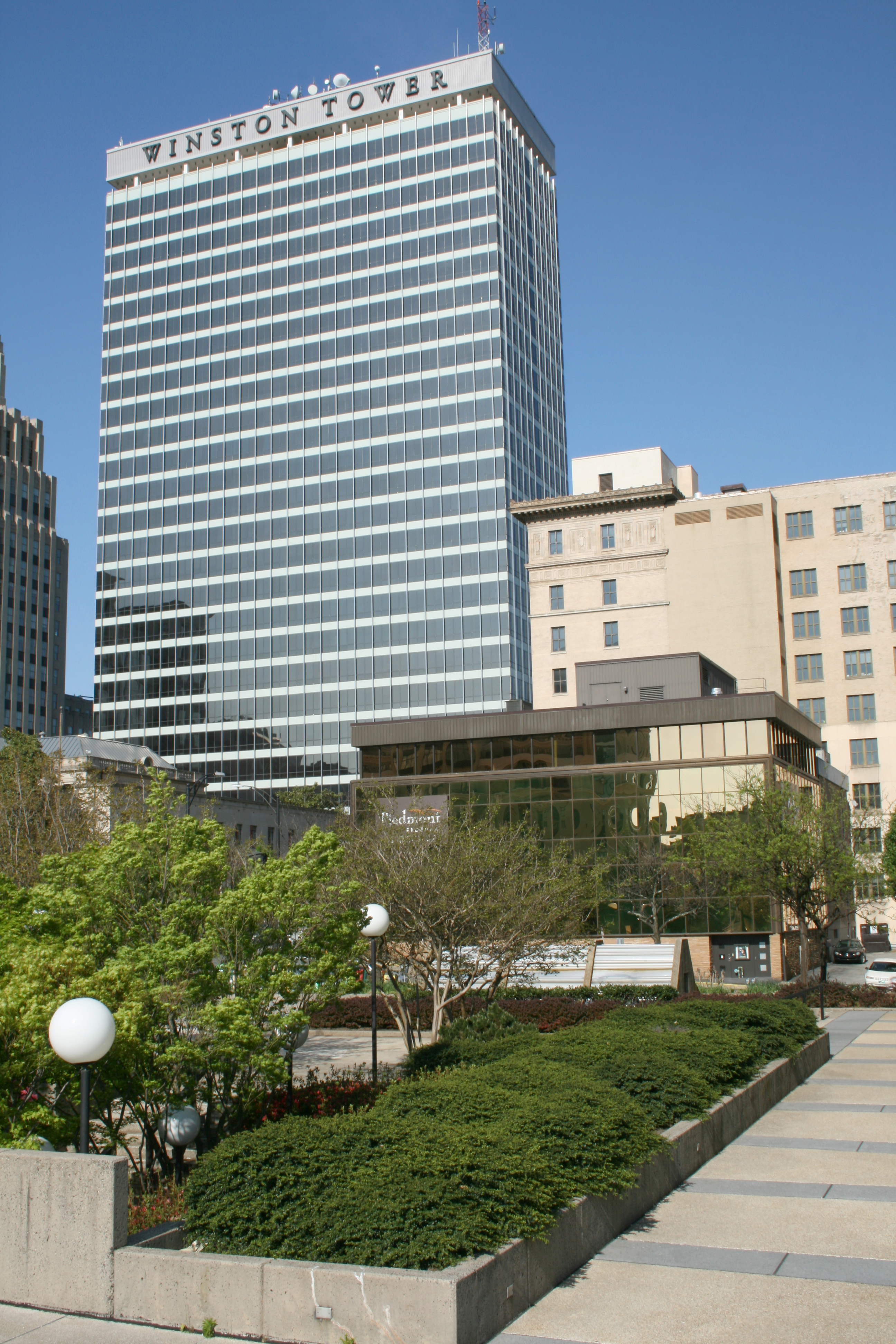 Winston Tower in Winston-Salem, North Carolina.